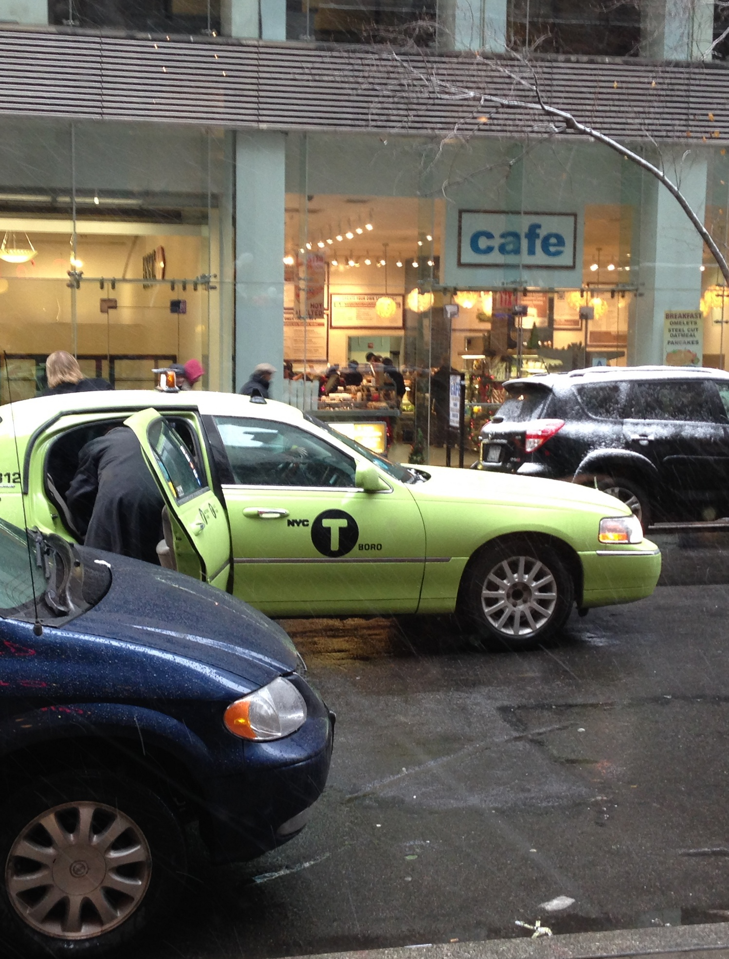 A "boro taxi" dropped passengers off inside the "yellow zone" in Midtown Manhattan, New York City. It is not allowed to pick up new passengers in the yellow zone.